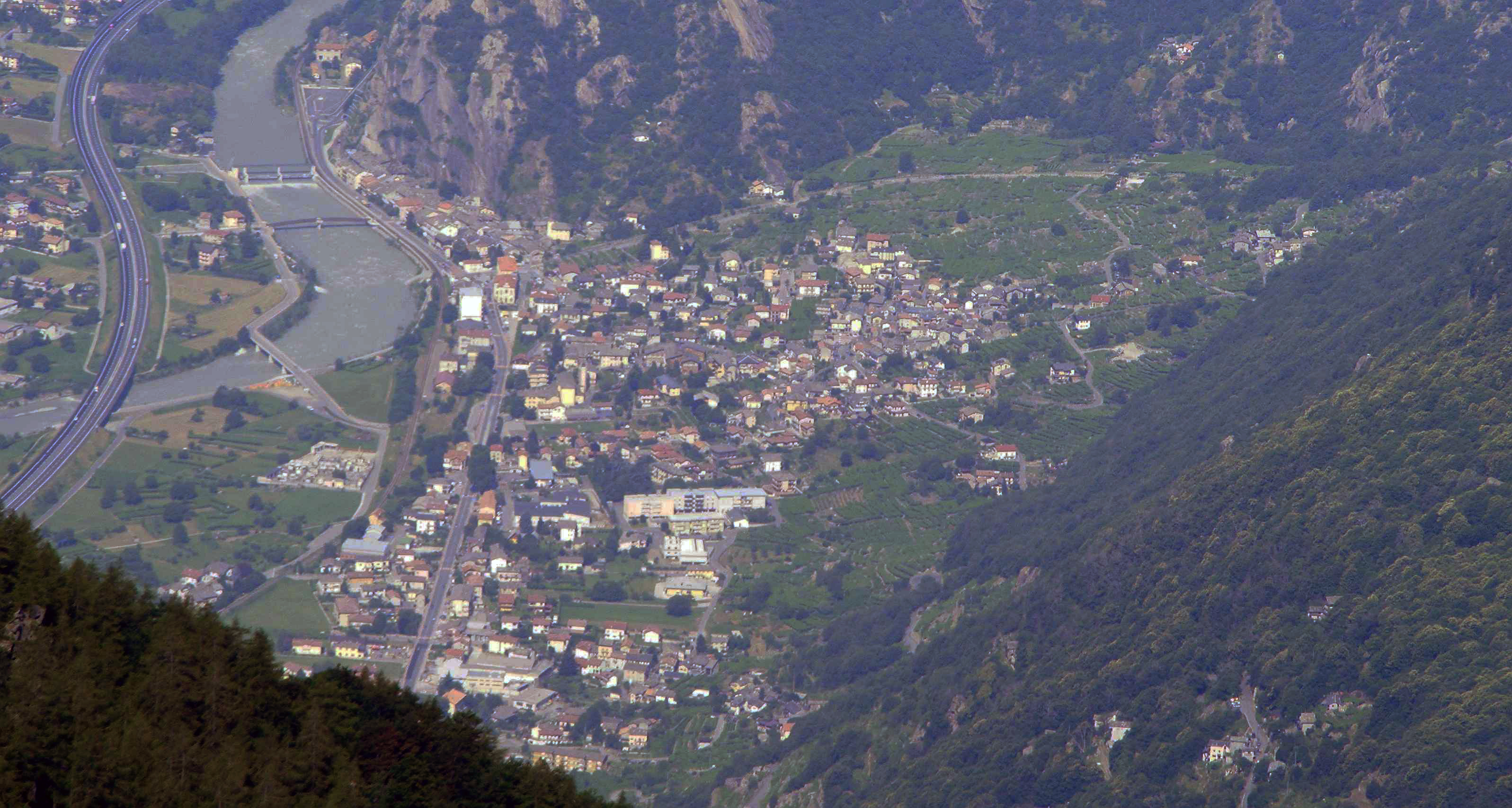 Donnas (AO, Italy) from Bec di Nona; on the left Dora Baltea river